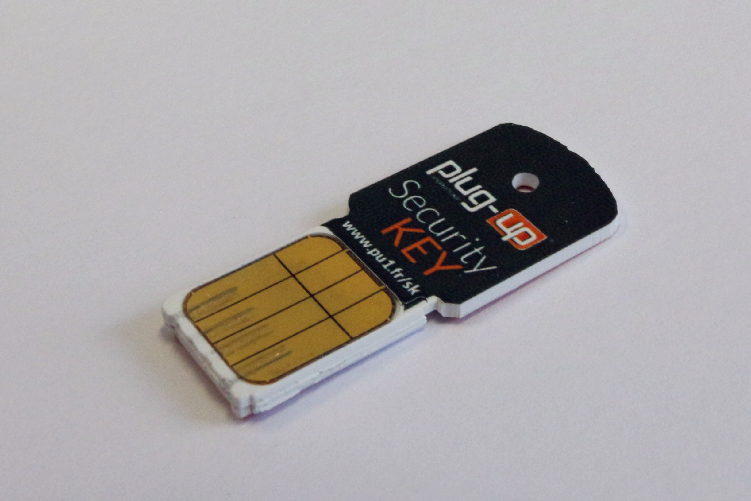 FIDO U2F Security Key by Plug-up International